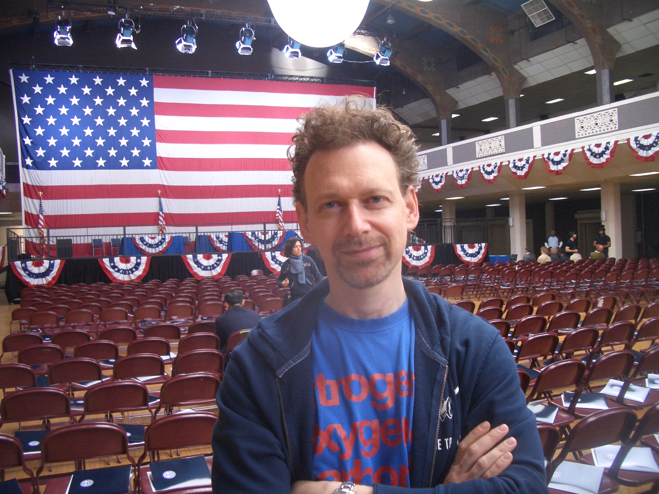 Director, Wayne Kramer, on the set on his film, "Crossing Over."